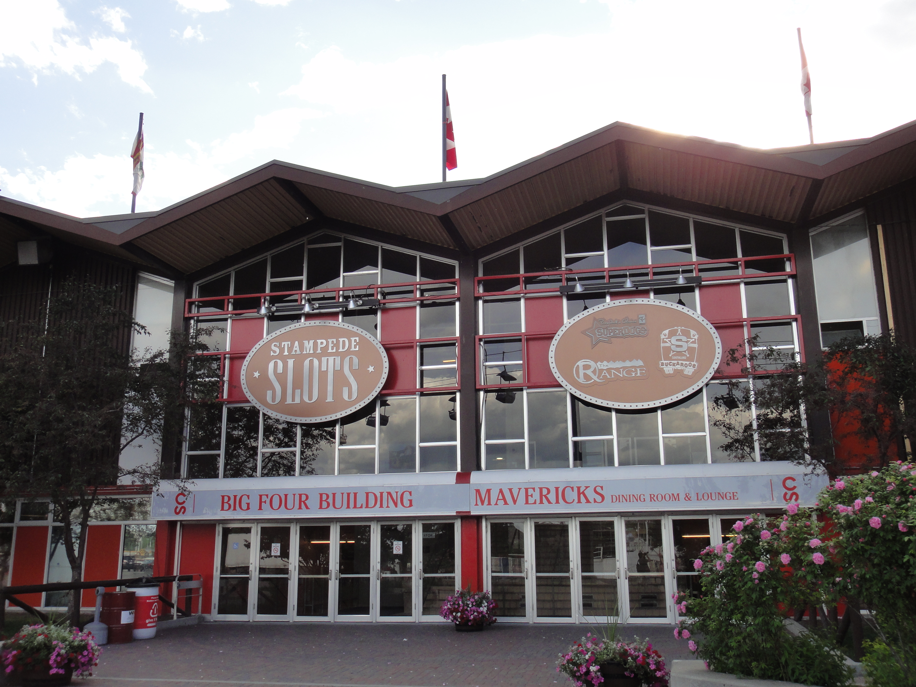 Big Four Building South Entrance, Calgary, Canada